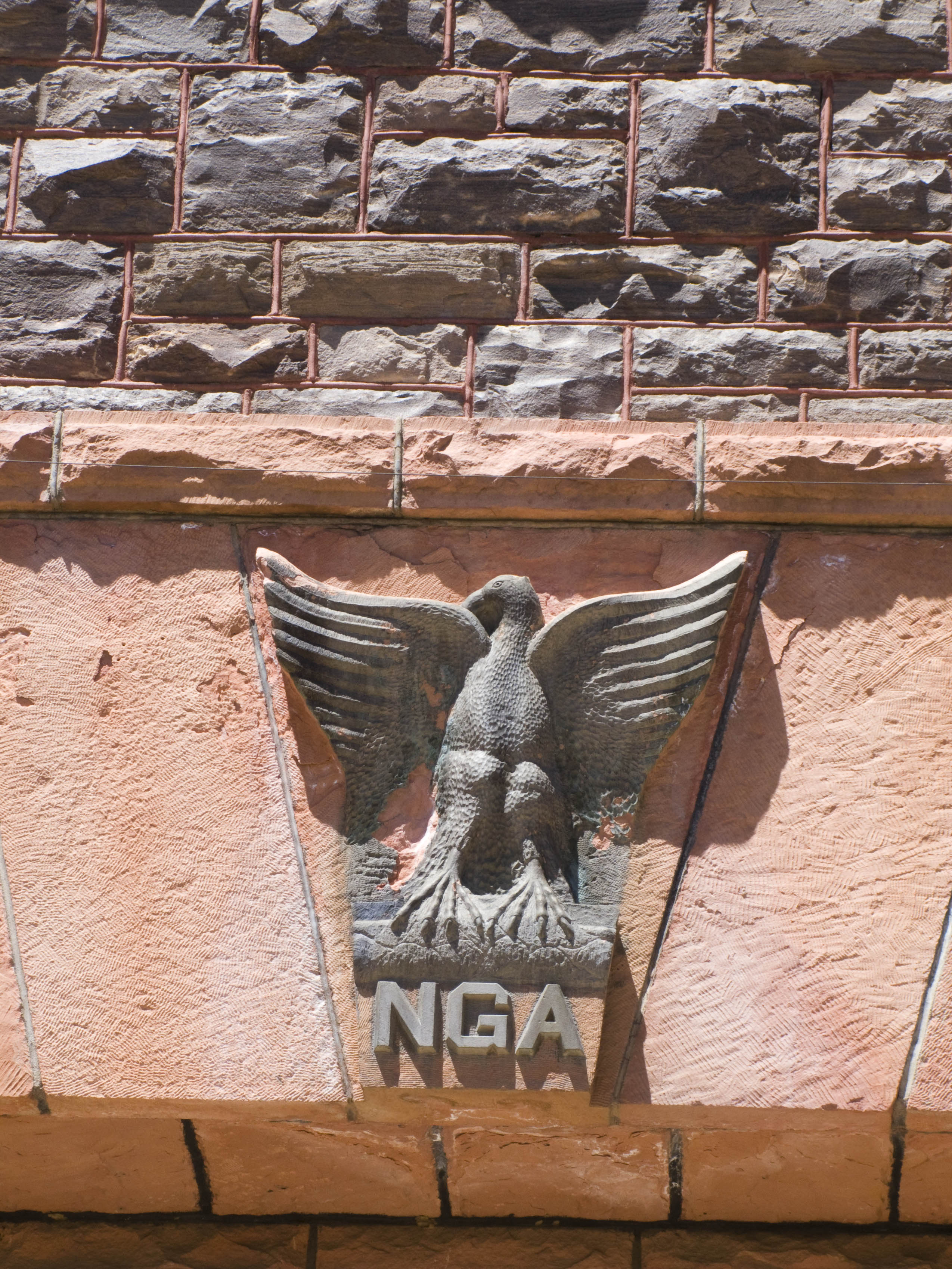 "NGA" insignia on old National Guard Armory, Prescott AZ